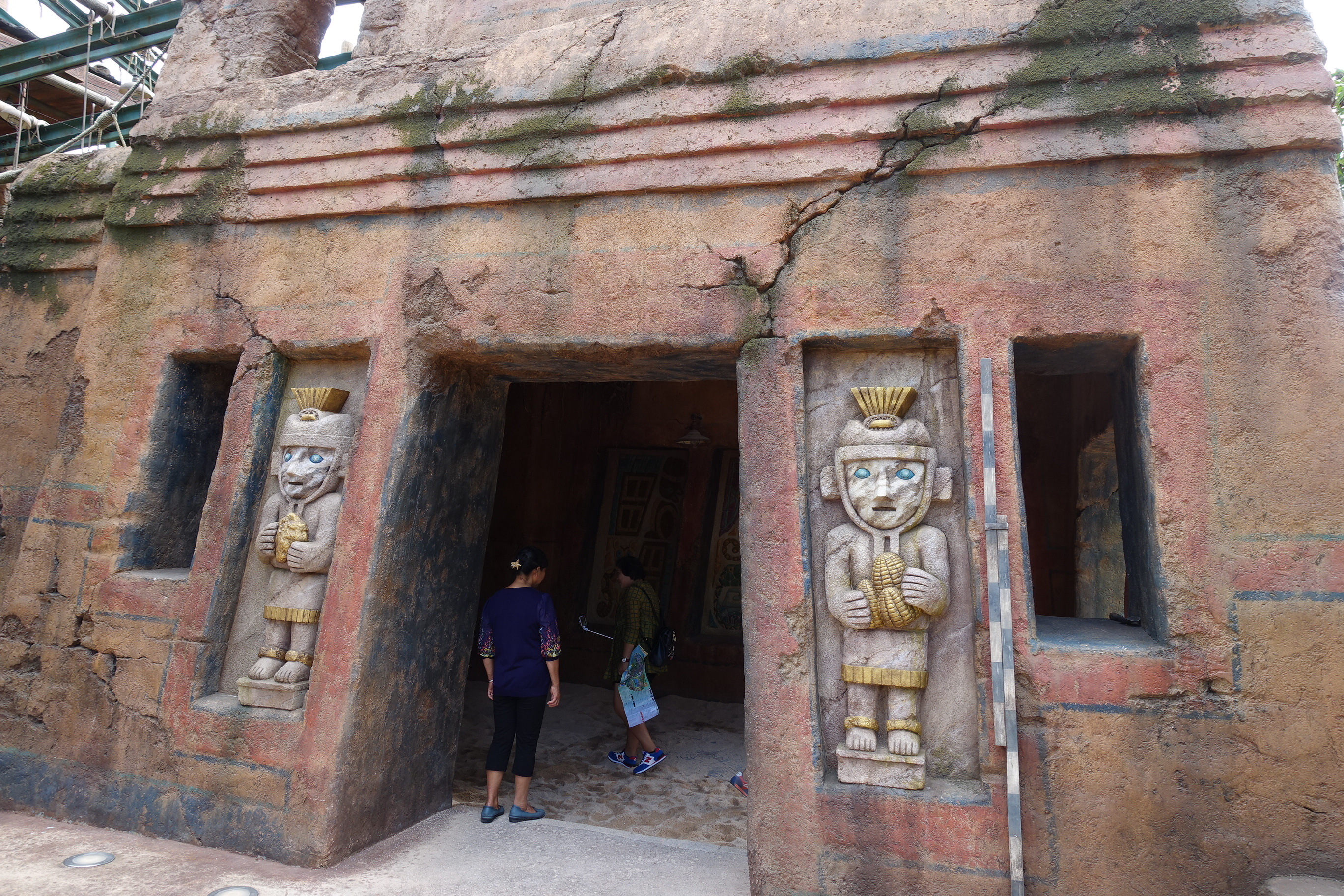 Camp Discovery